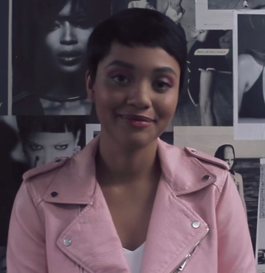 American actress Kiersey Clemons in a cover shoot for Heed Magazine. Videographer: Fortunate Films • Fe Million Photographer: Dwayne M. Campbell Stylist: Lunden Olin II Creative Direction: Latasha Henderson-Robinson